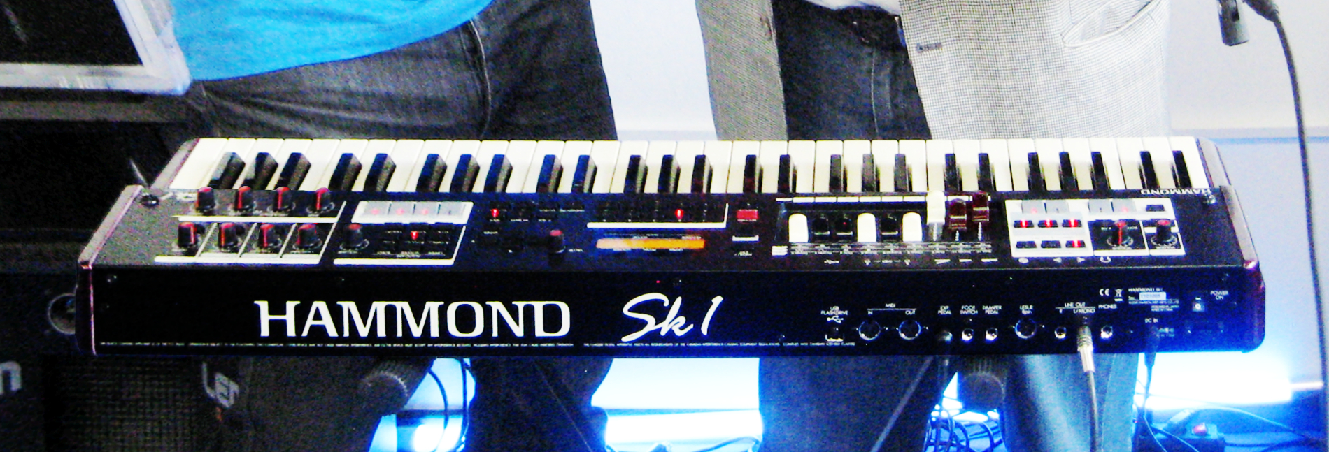 Prototype Hammond SK1 stage keyboard prior to release, recorded April 19th 2011 in Langenau Ulm Germany organ piano clavinet synthesizer Hammond Suzuki Musical Instrument Report